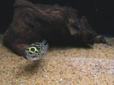 Green spotted puffer (Tetraodon nigroviridis) in aquarium.